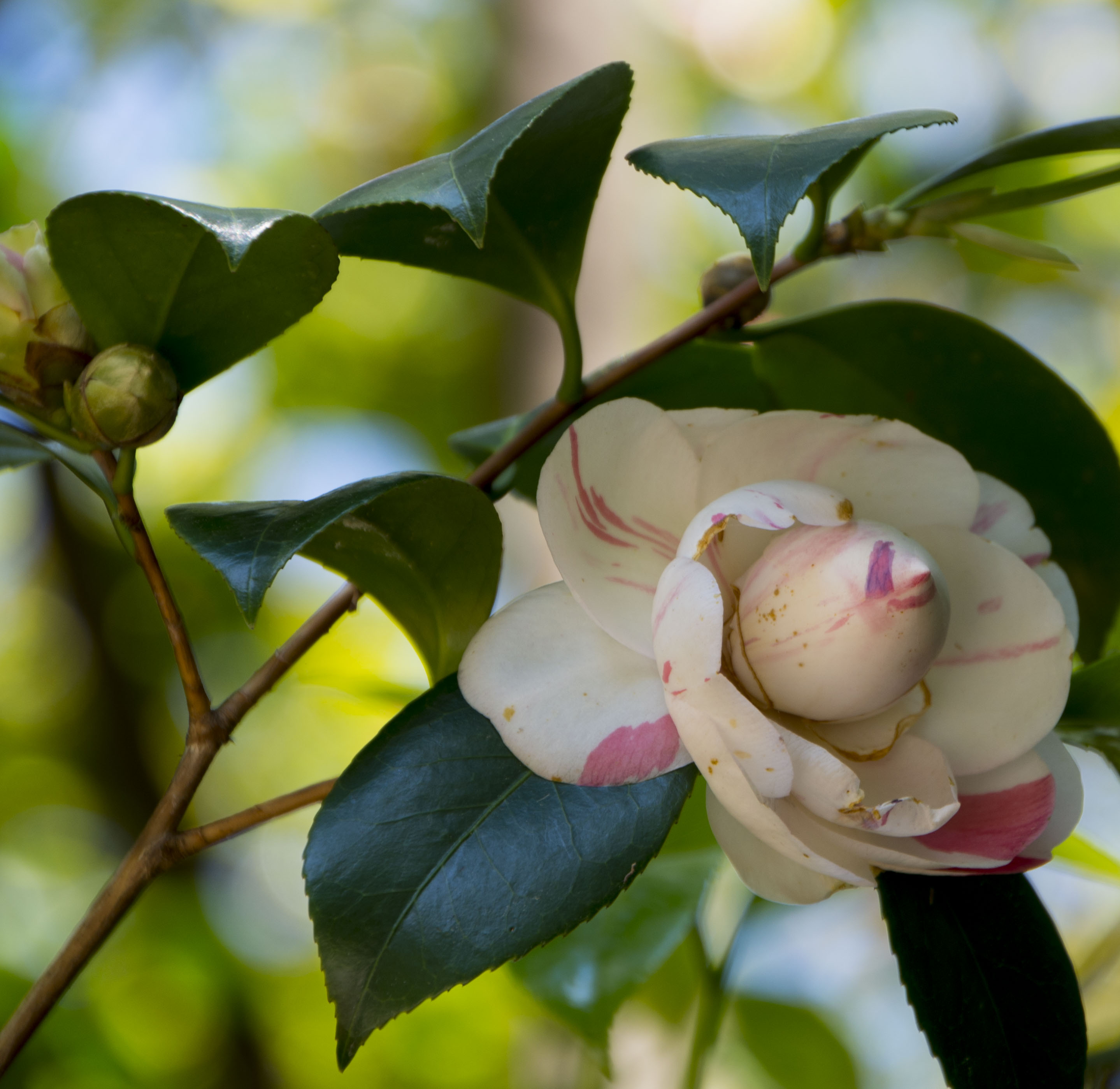 This is a photo of a monument which is part of cultural heritage of Italy.